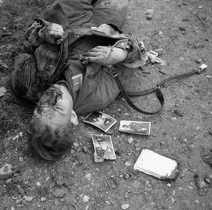 German corporal who was killed during fighting with the Loyal Edmonton Regiment, Ortona, Italy.